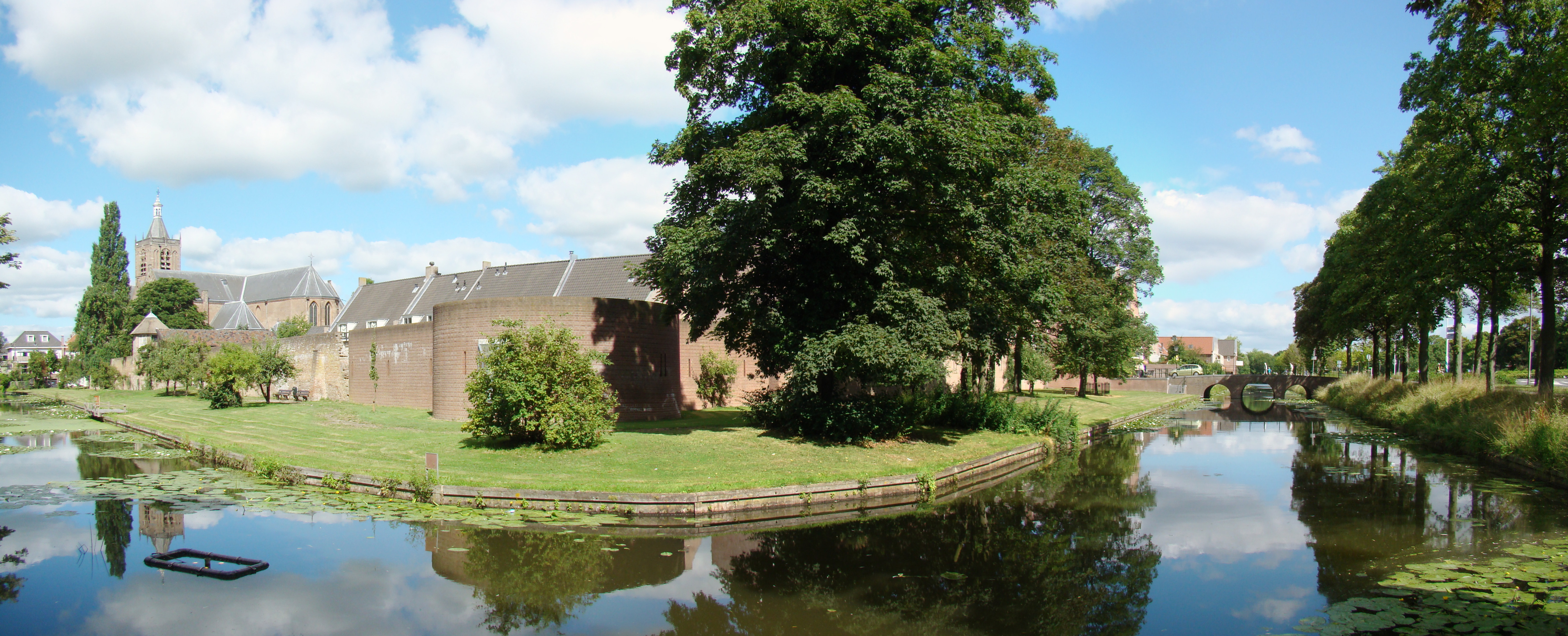 Monumental buildings in Vianen, the Netherlands